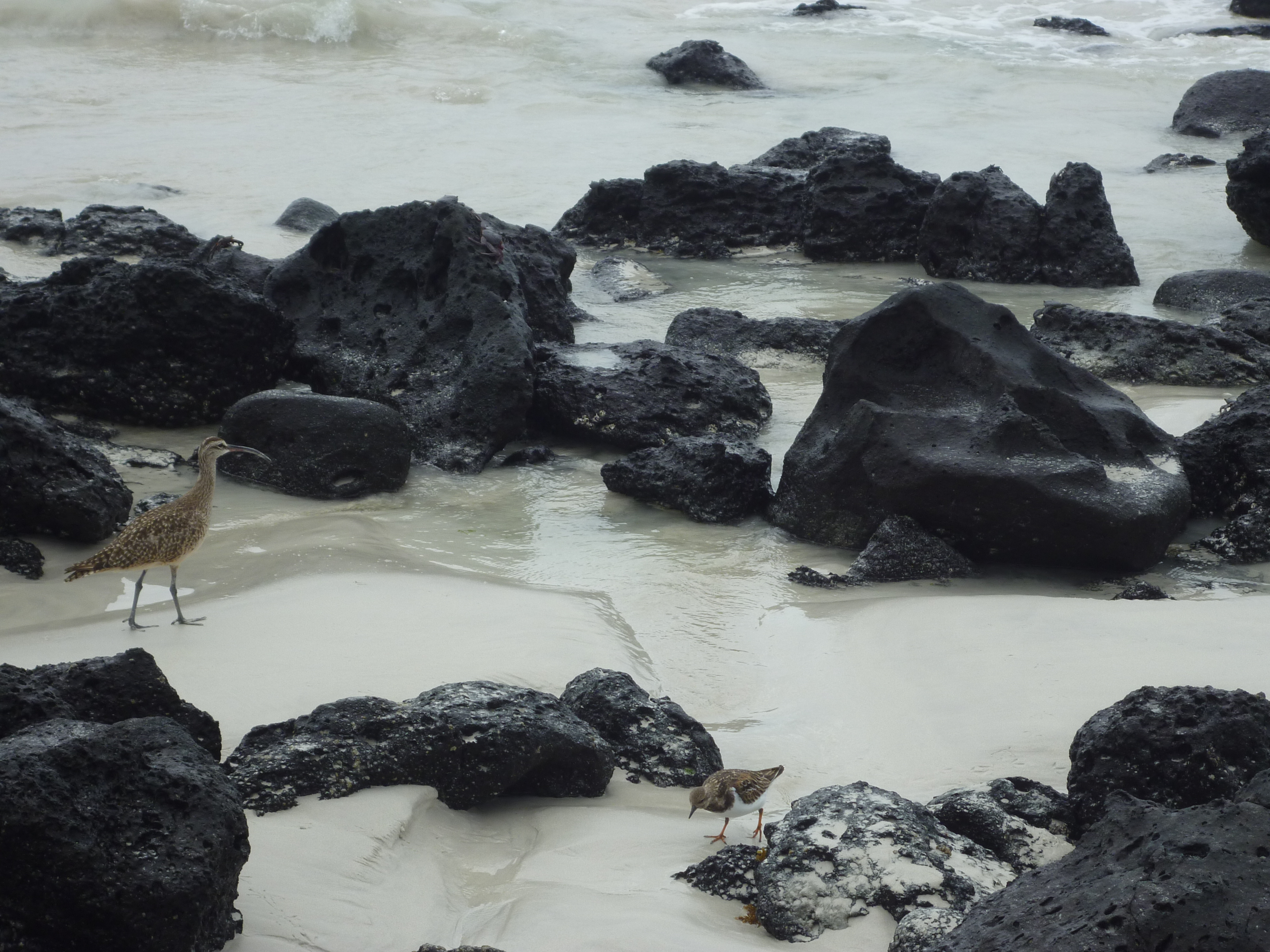 Professional photographer David Adam Kess took this photograph of two sea birds (Whimbrel Numenius phaeopus; Ruddy Turnstone Arenaria interpres) & volcanic rocks on the coastline of Tortuga Bay. Text from Wikipedia Tortuga Bay is about a 20-minute walk from the main water taxi dock in Puerto Ayora. The walking path is 1.55 miles (2,490 m) and is open from six in the morning to six in the evening. Visitors must sign in and out at the start of the path with the Galapagos Park Service office. Toruga Bay has a gigantic, perfectly preserved beach that is forbidden to swimmers and is preserved for the wildlife where many iguanas, crabs and birds are seen dotted along the lava rocks. There is a separate cove where you can swim where it is common to view whitetip reef sharks swimming in groups, small fish, birds, and gigantic turtles.